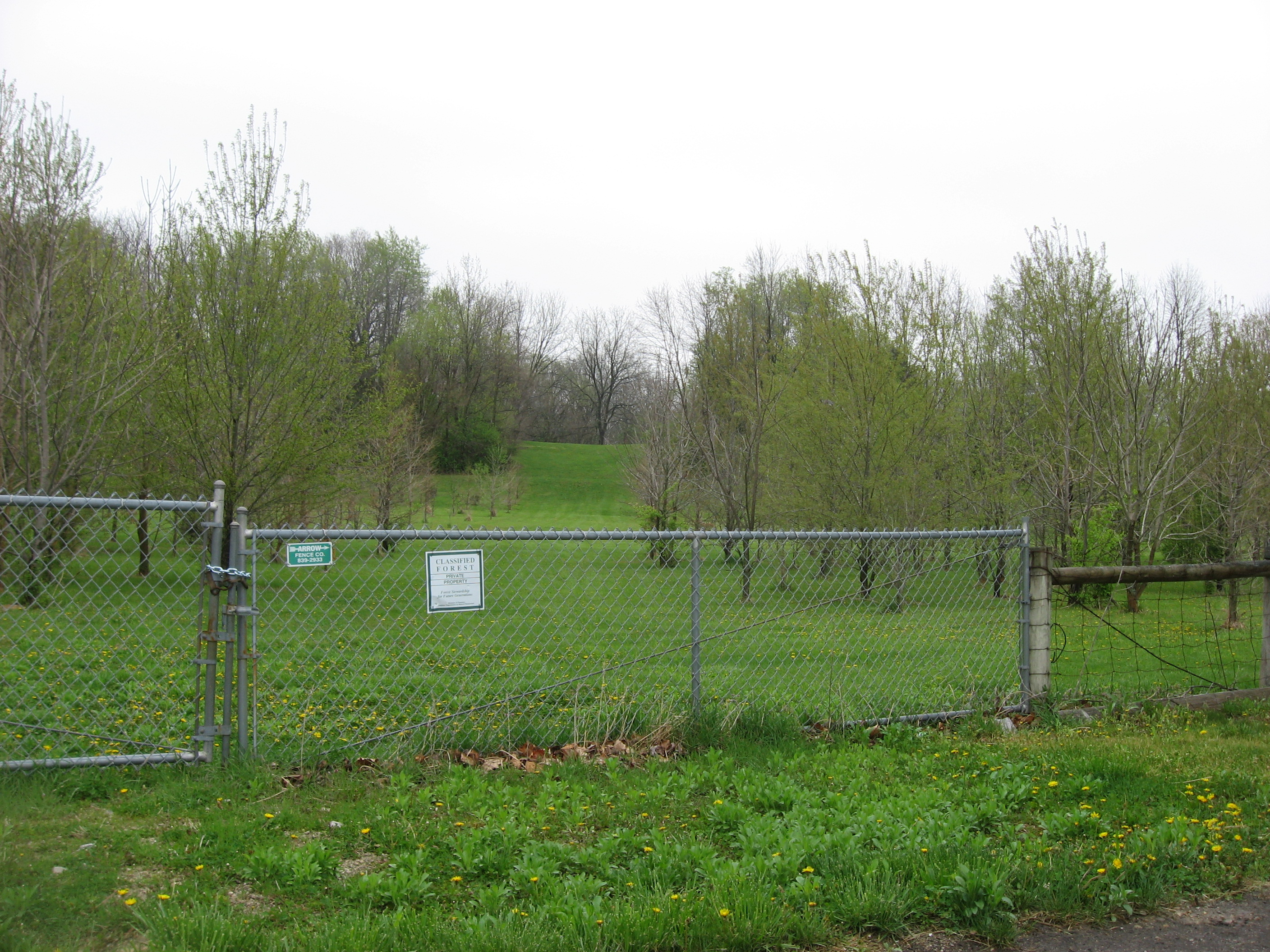 Open land and woods on the A.A. Parsons Farmstead, located at 1739 S625E in Washington Township, Hendricks County, Indiana, United States. The farmstead is listed on the National Register of Historic Places.